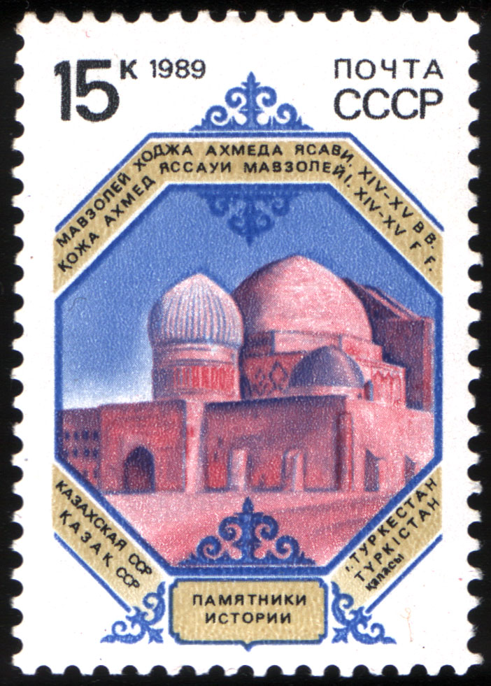 Stamp of USSR, Historical Monuments. Khodzha Ahmed Yasavi mausoleum, Turkestan, 1989